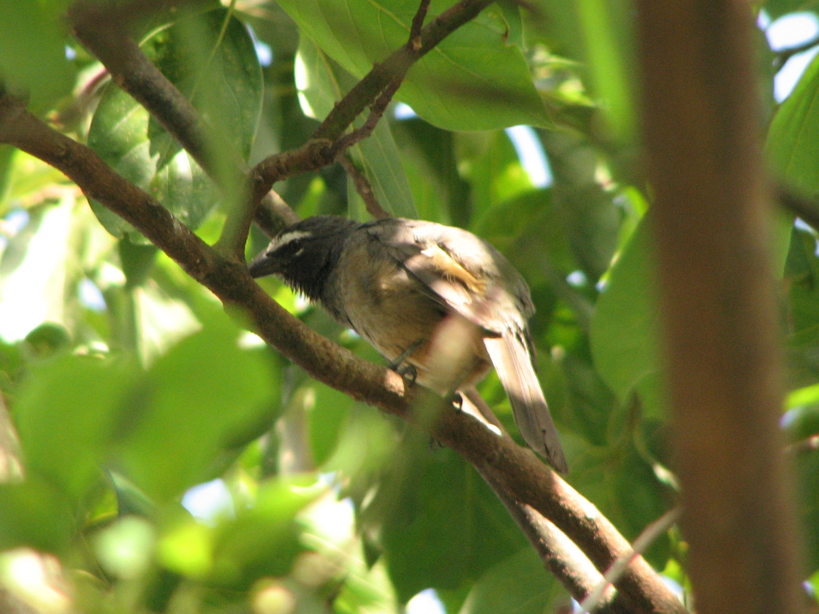 Greyish Saltator, Saltator coerulescens. Local name: Dichosofui